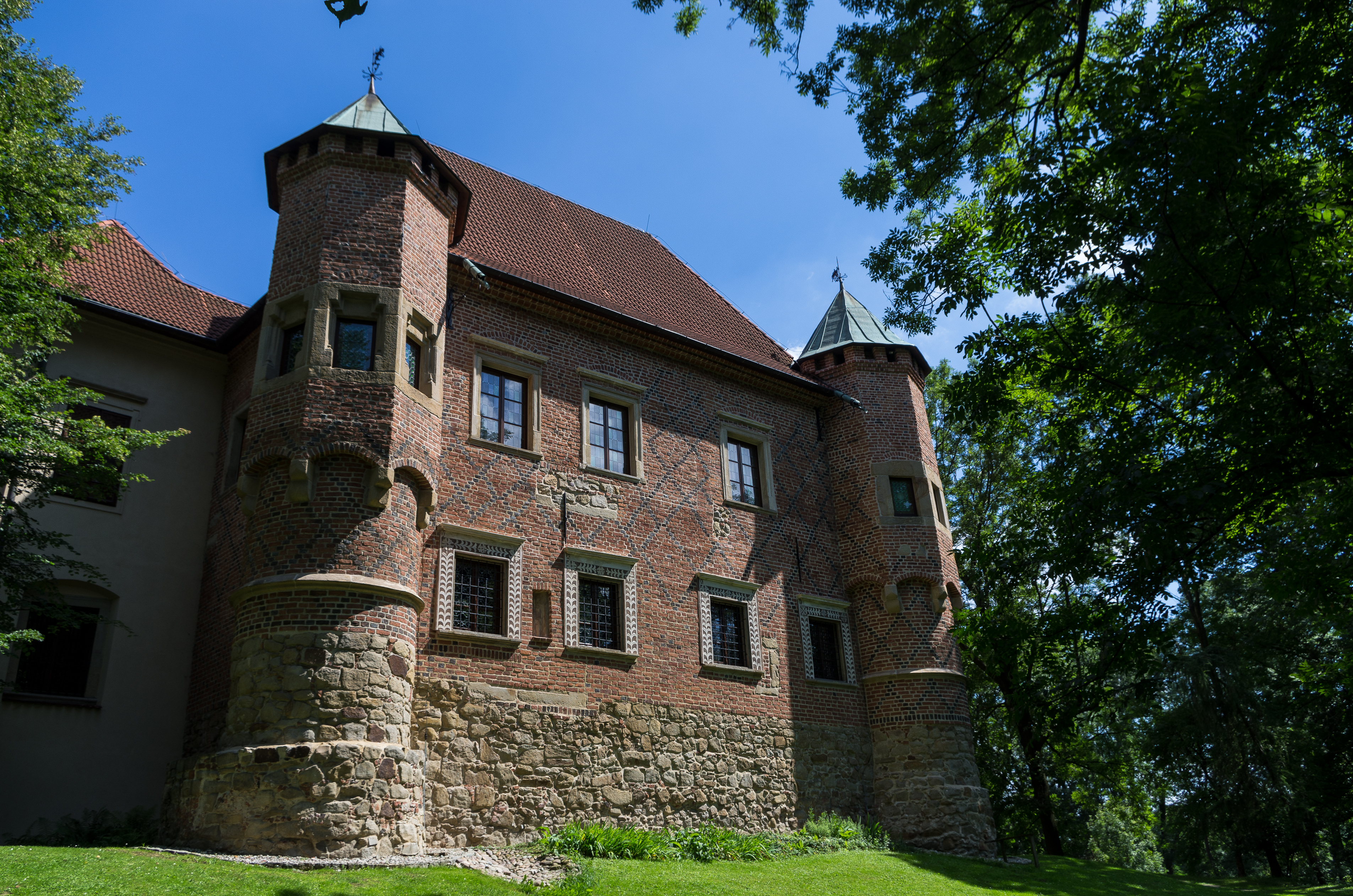 Castle in Dębno, Małopolska